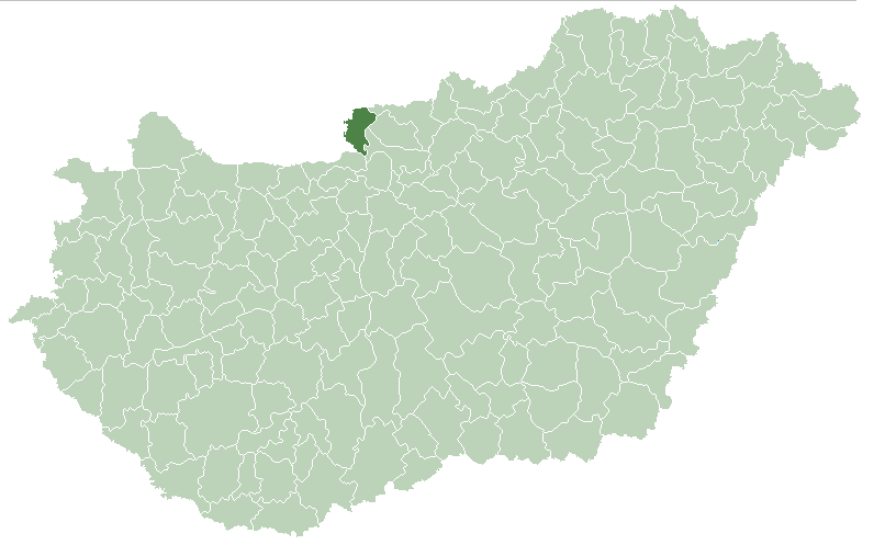 Location of subregion Szob, Hungary